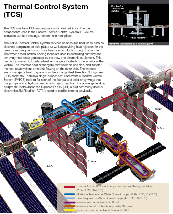 International Space Station Thermal Control System new diagram